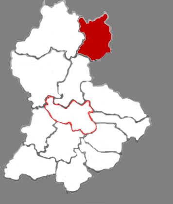 Location of Lan county in Lüliang City, China